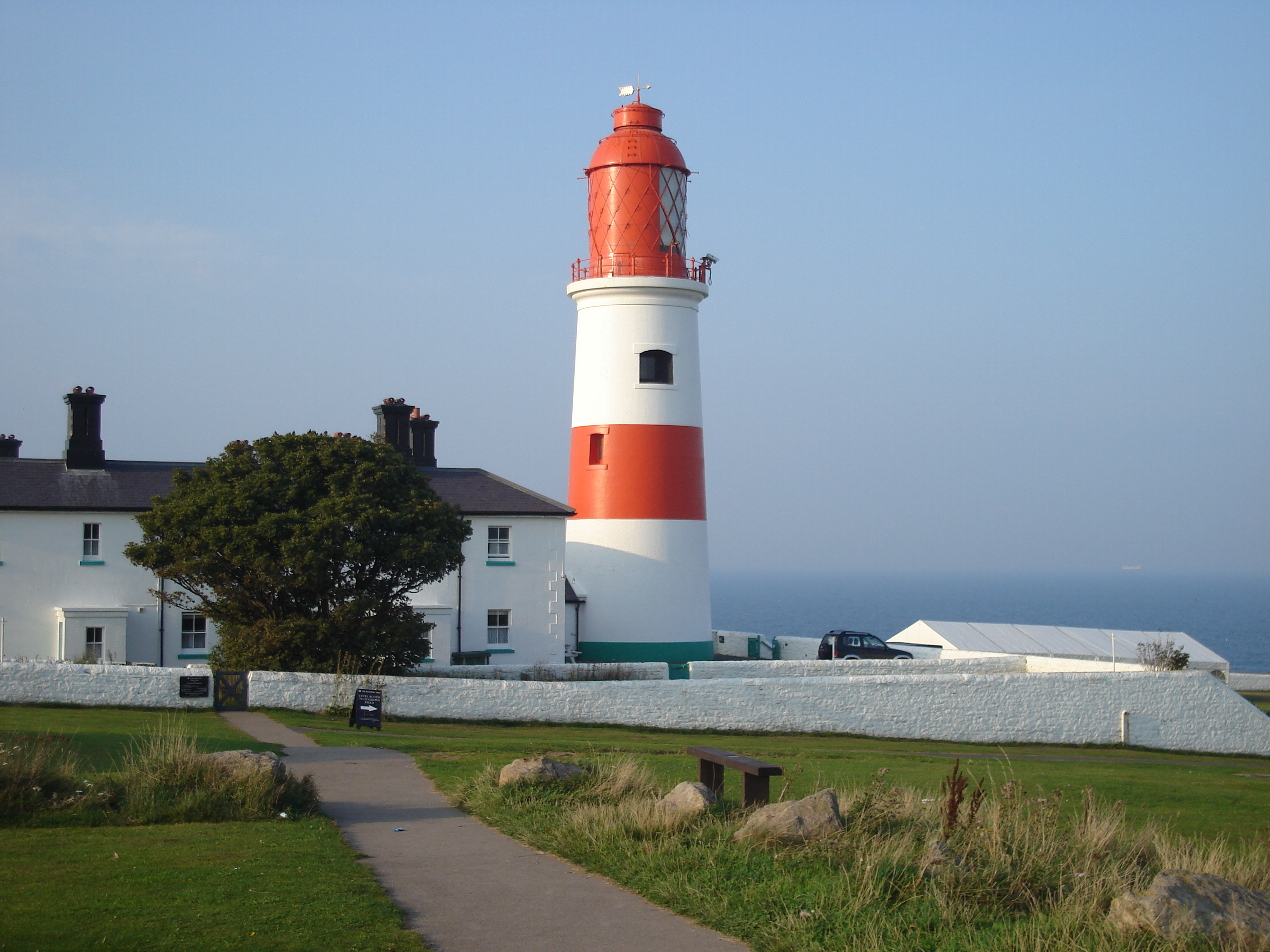 Souter Lighthouse from the South. Taken in 2006 before work began on repainting it.